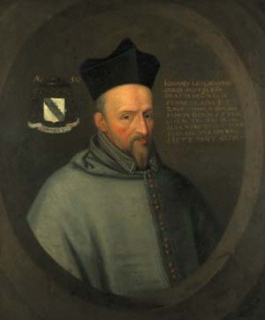 Portrait of John Lesley, Bishop of Ross, historian